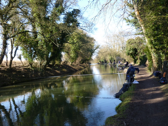 Shaded stretch of the Kennet & Avon canal known locally as 'The Hangings'. Anglers in action